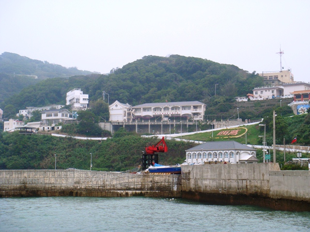 Xiju, seen from the Qingfan Harbor.